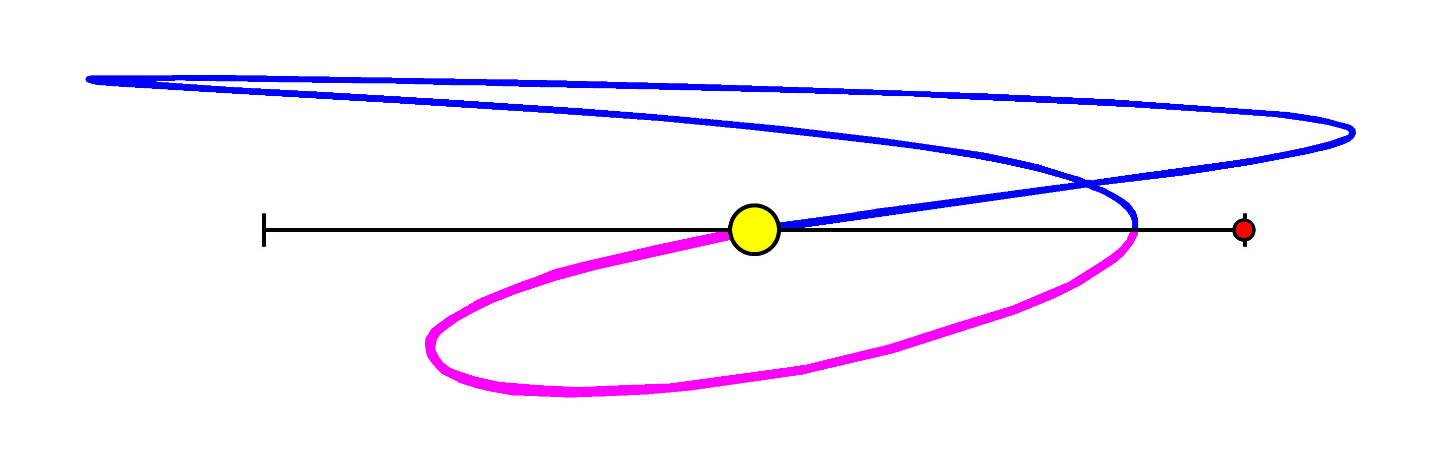 This diagram shows one complete orbit of asteroid 2015 BZ509. The view is from side looking into the Solar System. The Sun is the yellow disk in the middle. The orbit of Jupiter is shown in black, and to scale. Jupiter is stationary in this rotating frame, and its position is shown with the small red circle (not to scale). The orbit of 2015 BZ509 is shown in blue when it is above (north of) the plane of the orbit of Jupiter, and it is shown in magenta when it is below (south of) the plane of the orbit of Jupiter.[1]